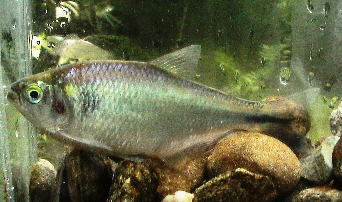 Bryconamericus caucanus